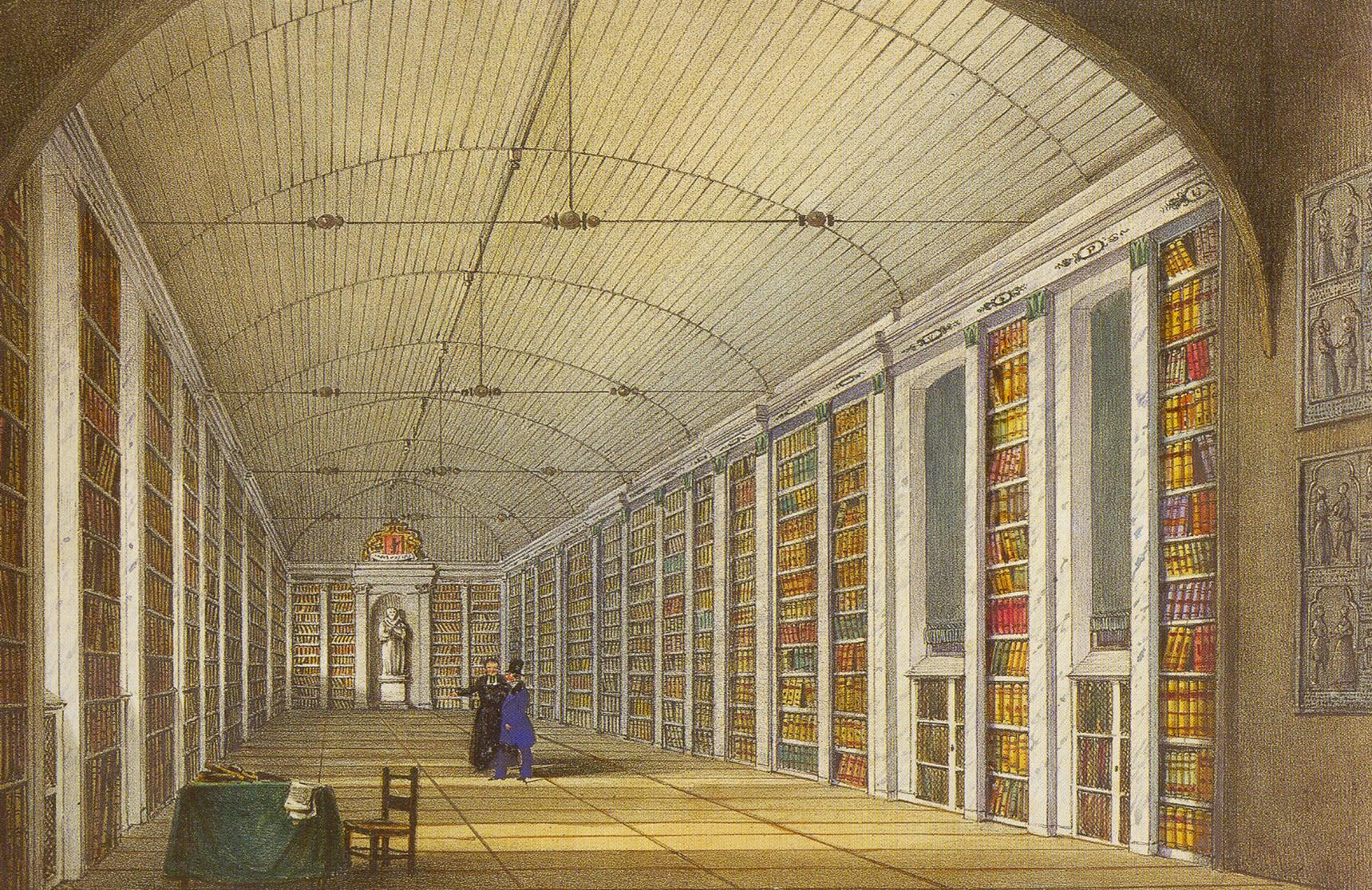 Interior of the library of the Episcopal Seminary in Bruges (Belgium) in 1837